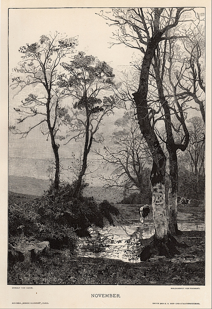 November, wood engaving.